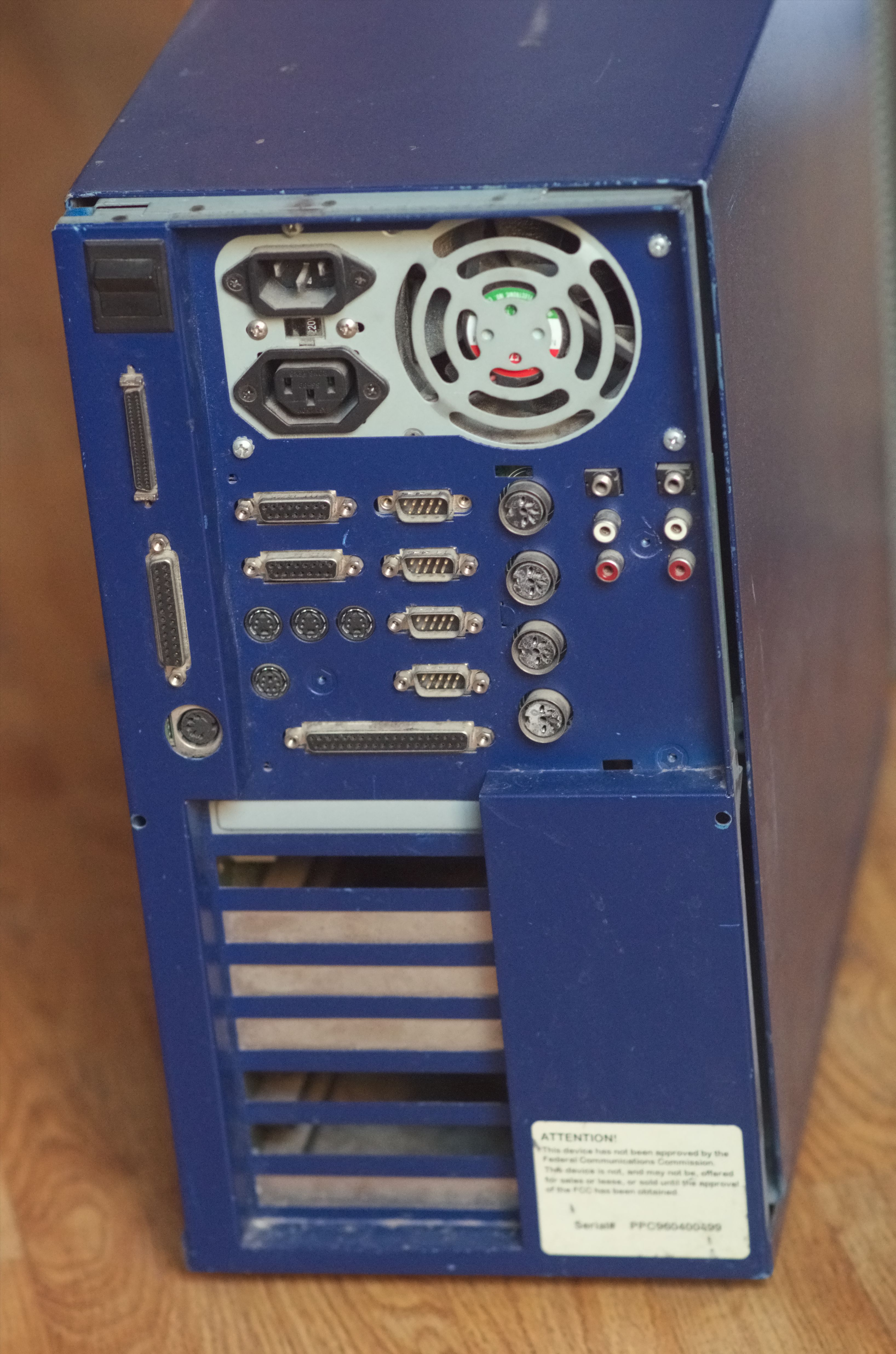 BeBox backside